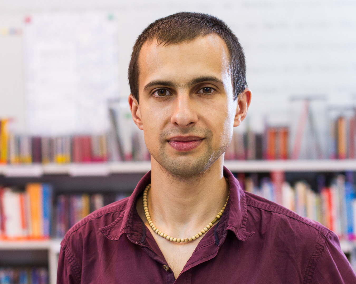 Ljubko Deresh on Authors’ Reading Month 2015, Wrocław, Poland